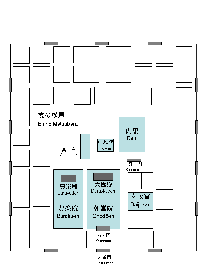 Plan of the Heian Palace or Daidairi based on maps in published works Category:Maps of the history of Japan